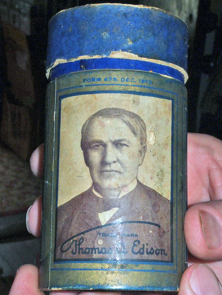 Read view of the cardboard tube used to store Blue Amberol cylinders featuring a portrait of Thomas Edison